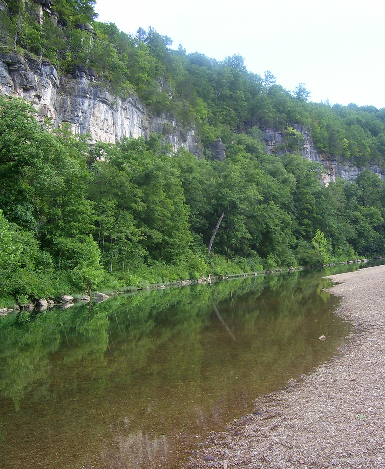 The peaceful waters of the Jacks Fork River.